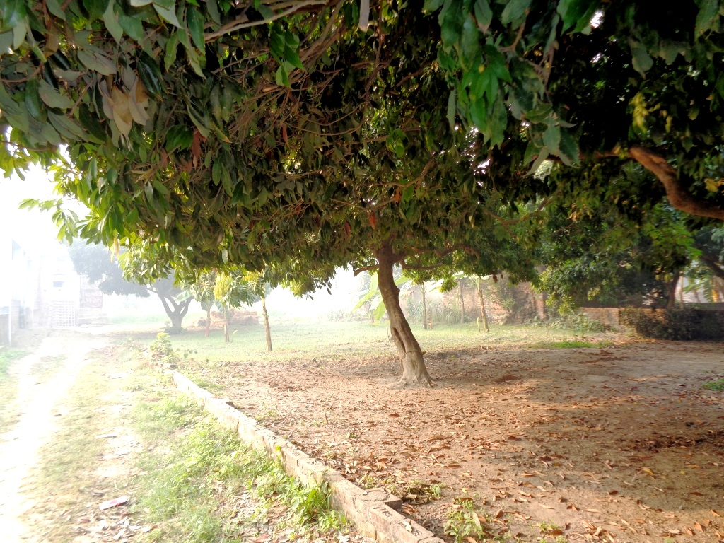 Lychee garden in Muzaffarpur